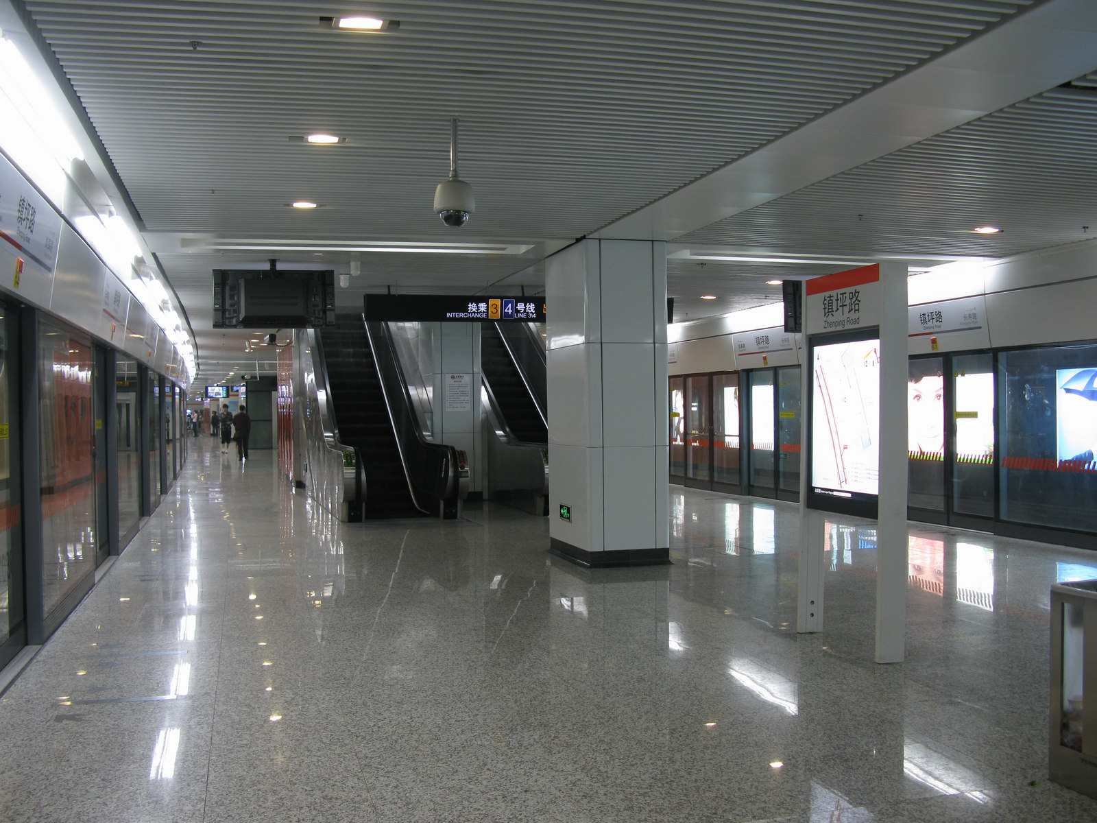 Line 7 Platform of Zhenping Road Station, Shanghai Metro